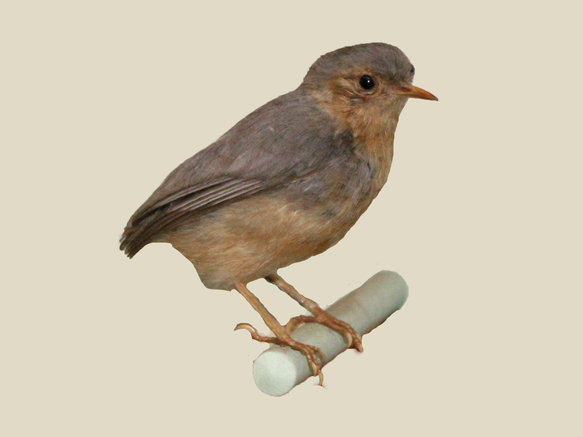 Red-faced Crombec (Sylvietta whytii). Photograph of a specimen at Nairobi National Museum in Nairobi, Kenya.